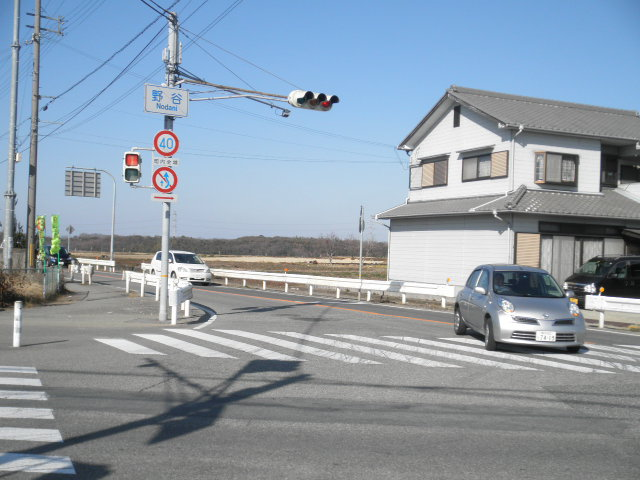 Nodani Inamitown Hyogopref Hyogoprefectural road 514 Shijimi Tsuchiyama line